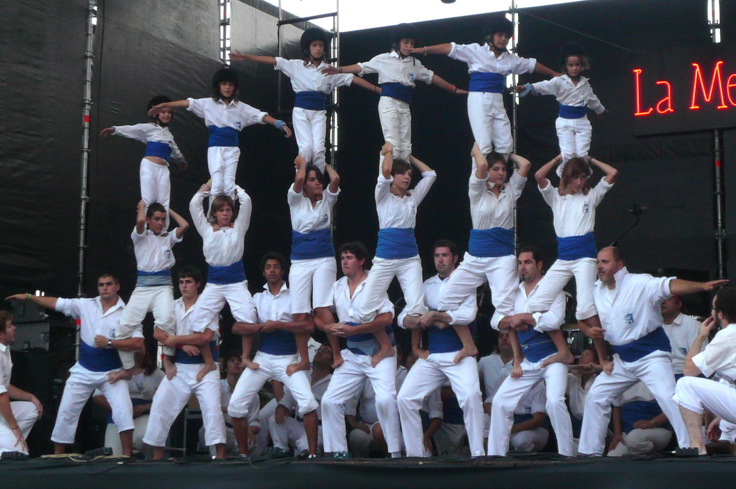 Falcons de Vilanova in Barcelona